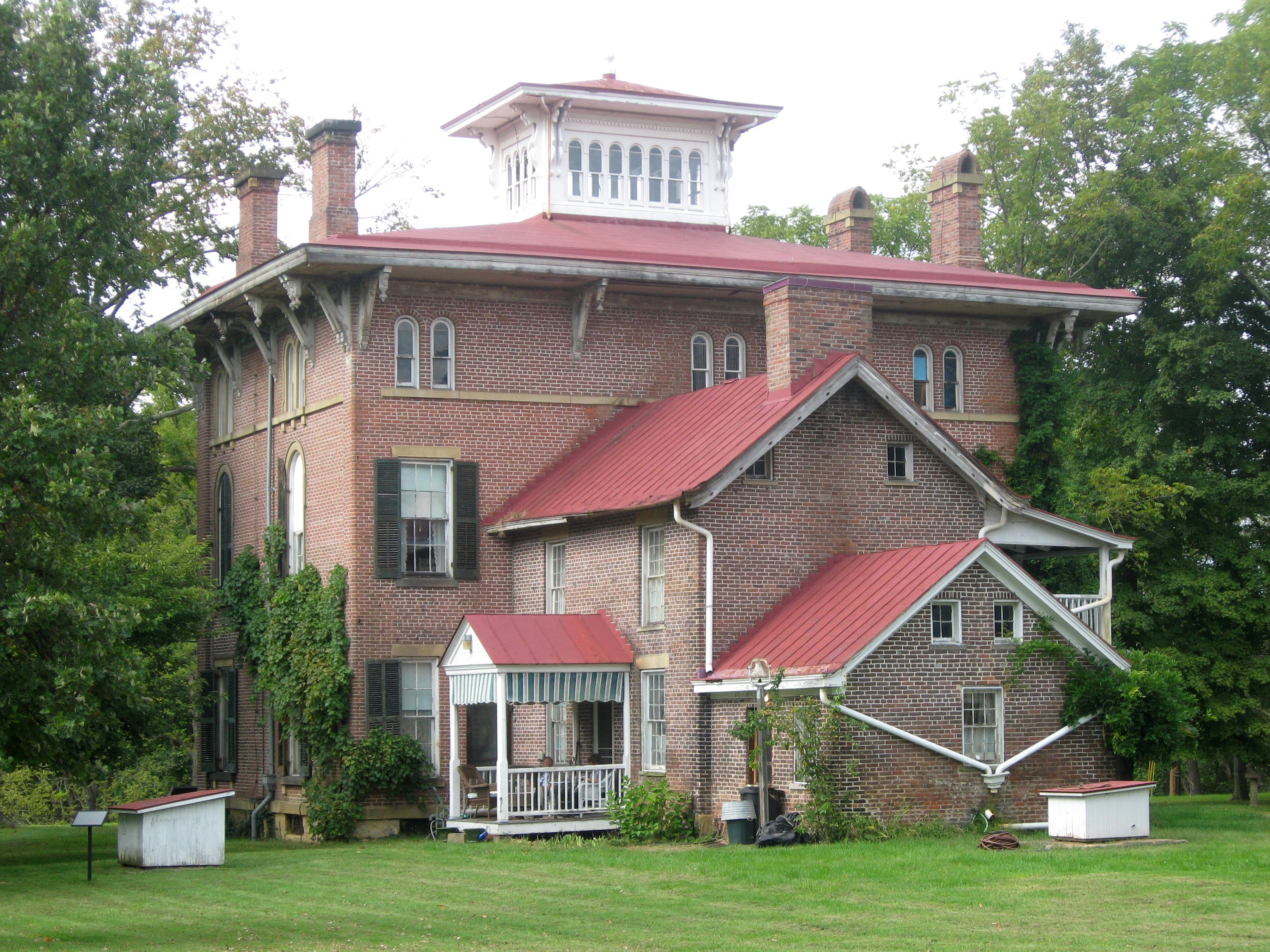 The G. W. Henderson plantation (Henderson Hall) located in Williamstown, Wood Co., West Virginia.